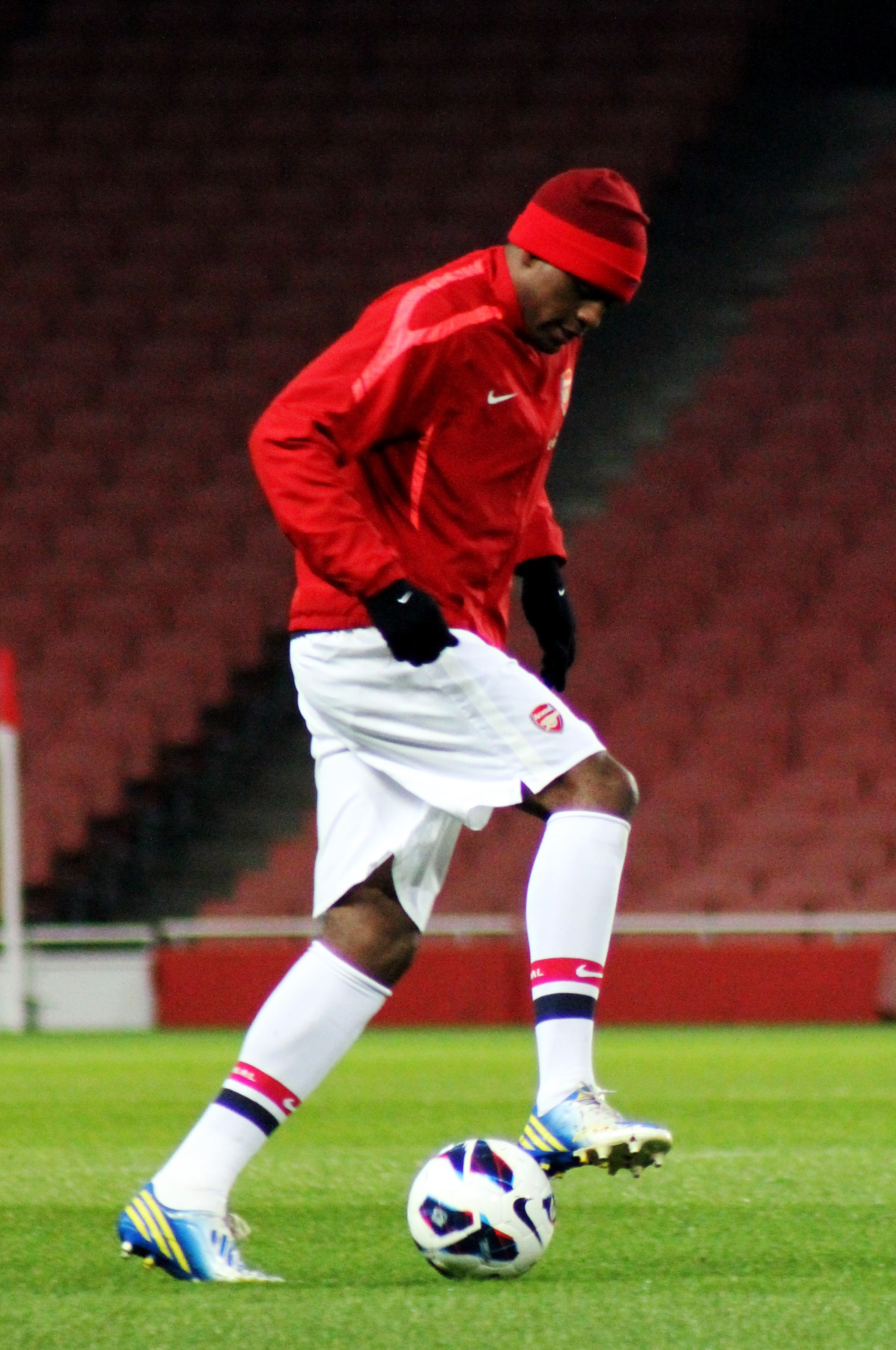 Kyle Ebecilio playing for Arsenal.